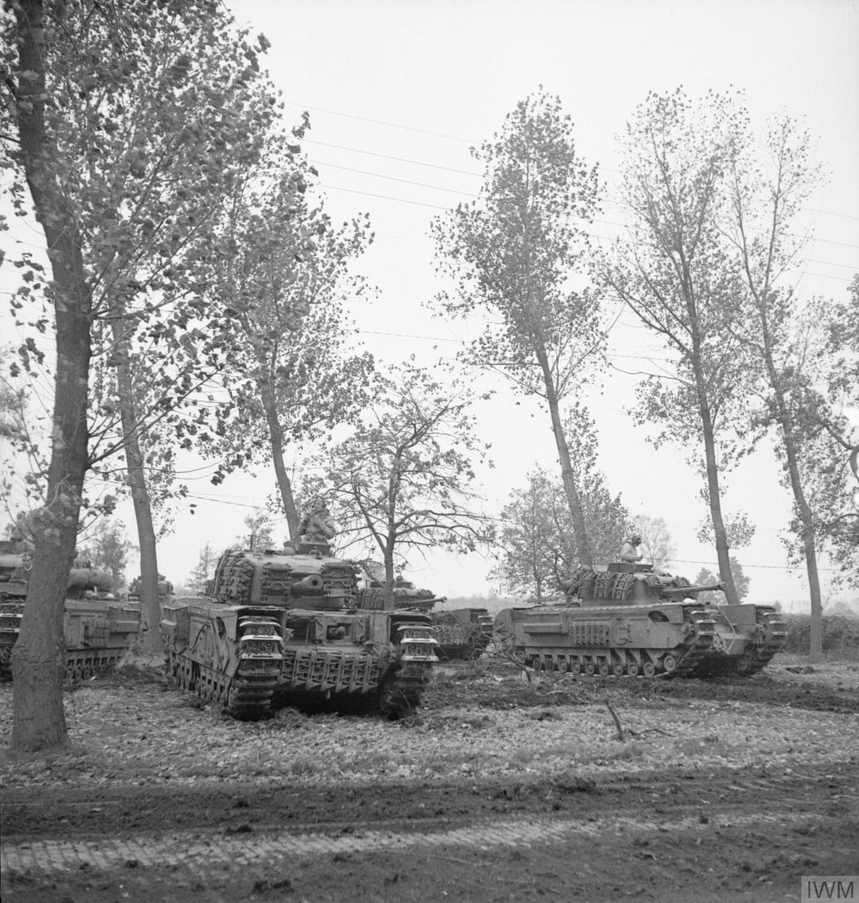 The British Army in North-west Europe 1944-45 Churchill tanks of 4th Grenadier Guards assemble for the advance on Liesel, 1 November 1944.